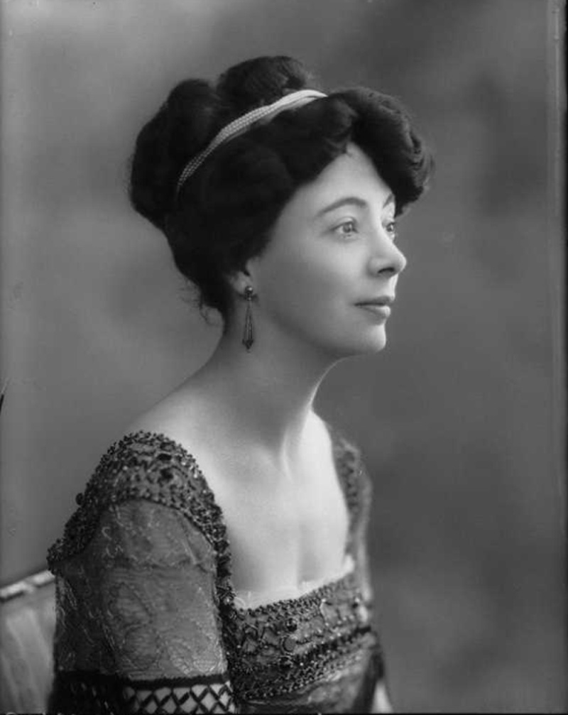 Charlotte Adams resident of Courtlands House now Lympstone Manor